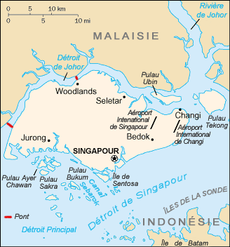 A map of Singapore from the CIA World Factbook with French labels.